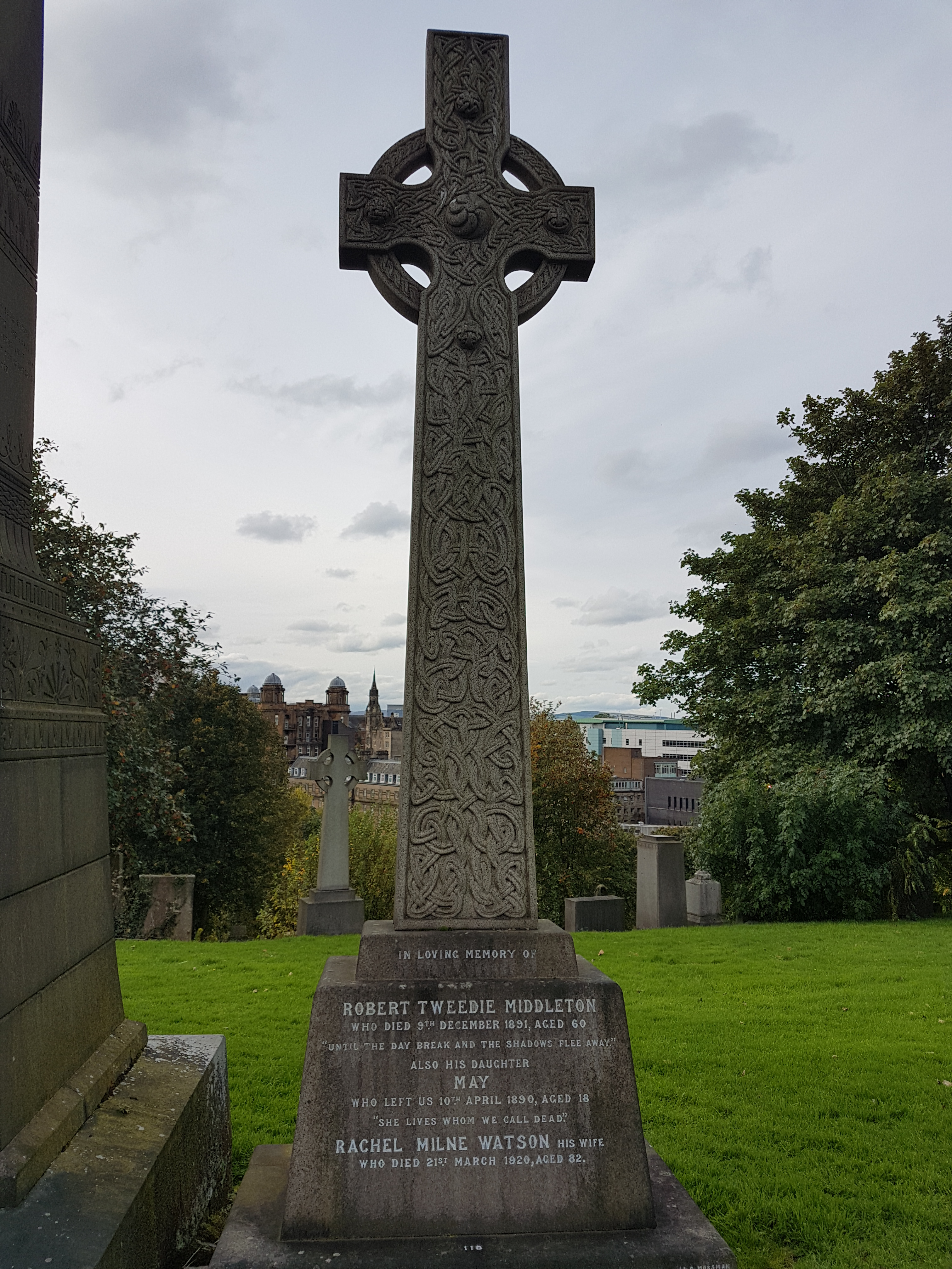 Glasgow Necropolis Wikidata has entry Q1529512 with data related to this item.